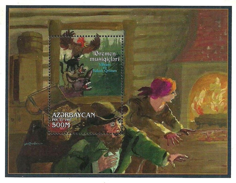 Stamp of Azerbaijan